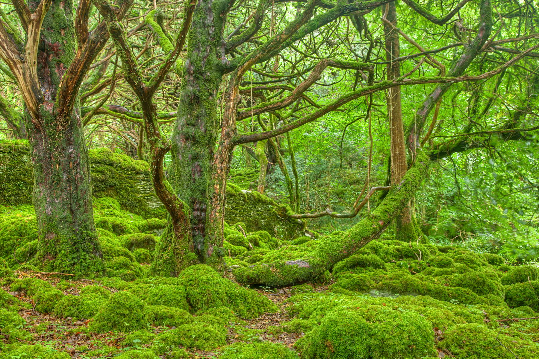 Lush forest scenery in Killarney Park, Ireland. HDR composite from multiple exposures. This photo is released under a standard Creative Commons License - Attribution 3.0 Unported. It gives you a lot of freedom to use my work commercially as long as you credit and link back to the same free image from my website